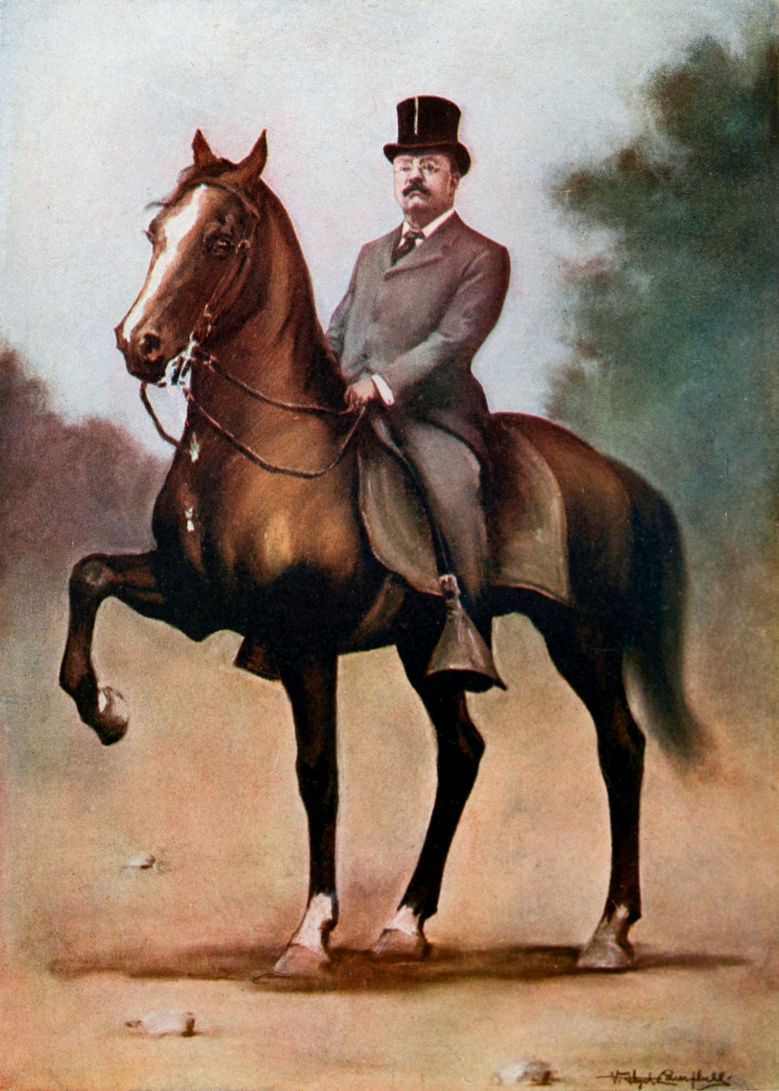 President (Theodore) Roosevelt. Pastel study by V. Floyd Campbell after a snapshot photograph.